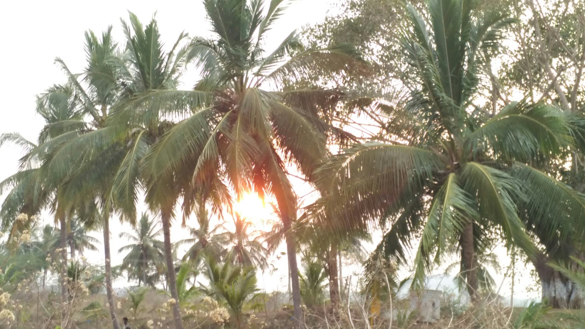 coconut trees in visakhapatnam